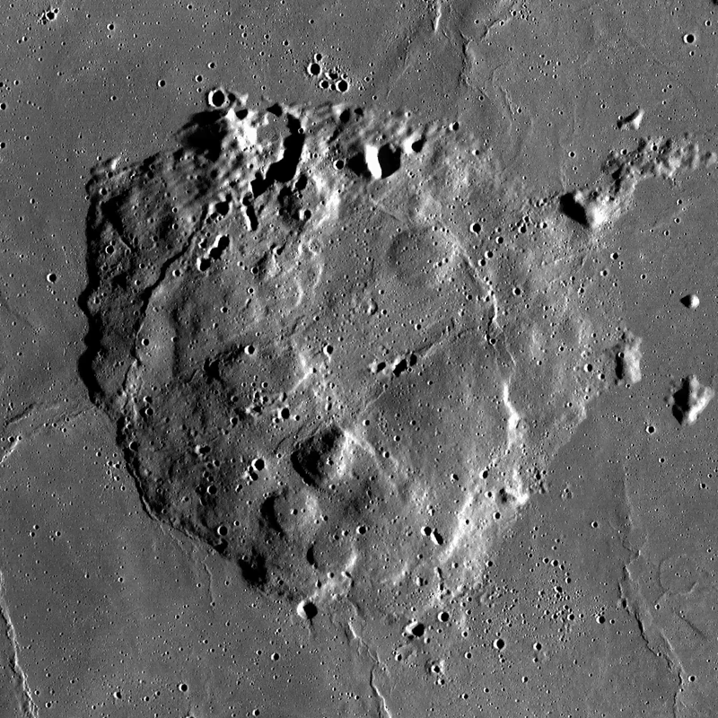 Mons Rümker, a volcanic construct in Oceanus Procellarum on the Moon. Mosaic of photos by Lunar Reconnaissance Orbiter, made with Wide Angle Camera. Size of the image is 95×95 km, north is up.